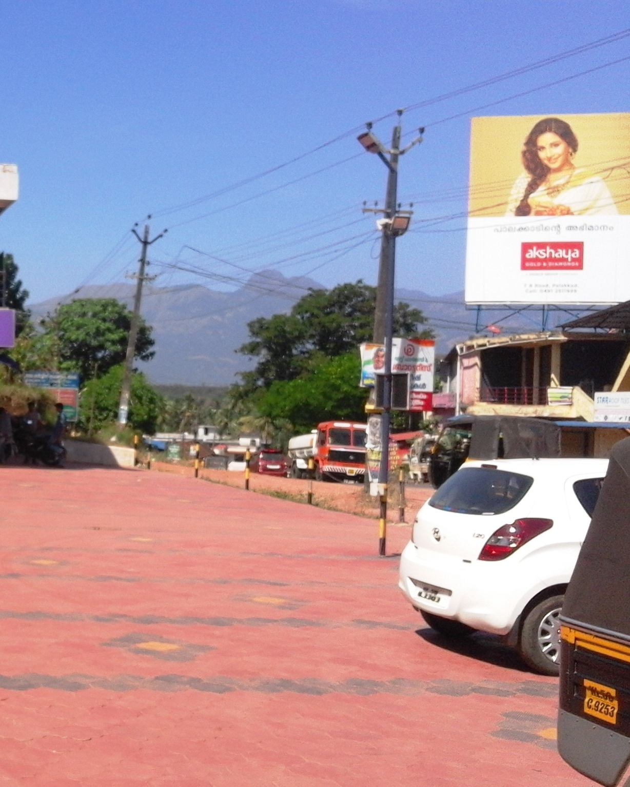 Thachampara, Mannarkkad, Palakkad District, Kerala, India.